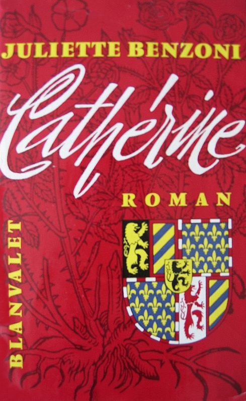 Book cover of Catherine written by Juliette Benzoni. The book was published in 1964 by the German Blanvalet publishing house, who sold the rights of the Catherine books to F.A. Herbig Verlagsbuchhandlung GmbH